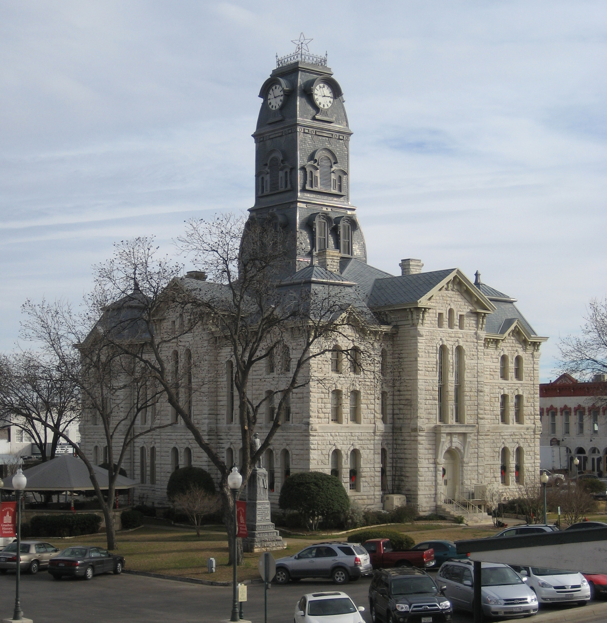 The Hood County, Texas Courthouse. Recorded Texas Historic Landmark - 1970